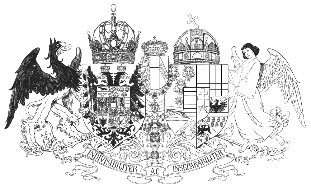 Middle Common Coat of Arms of Austria-Hungary, designed in 1915, official draft Hugo Gerhard Ströhl.